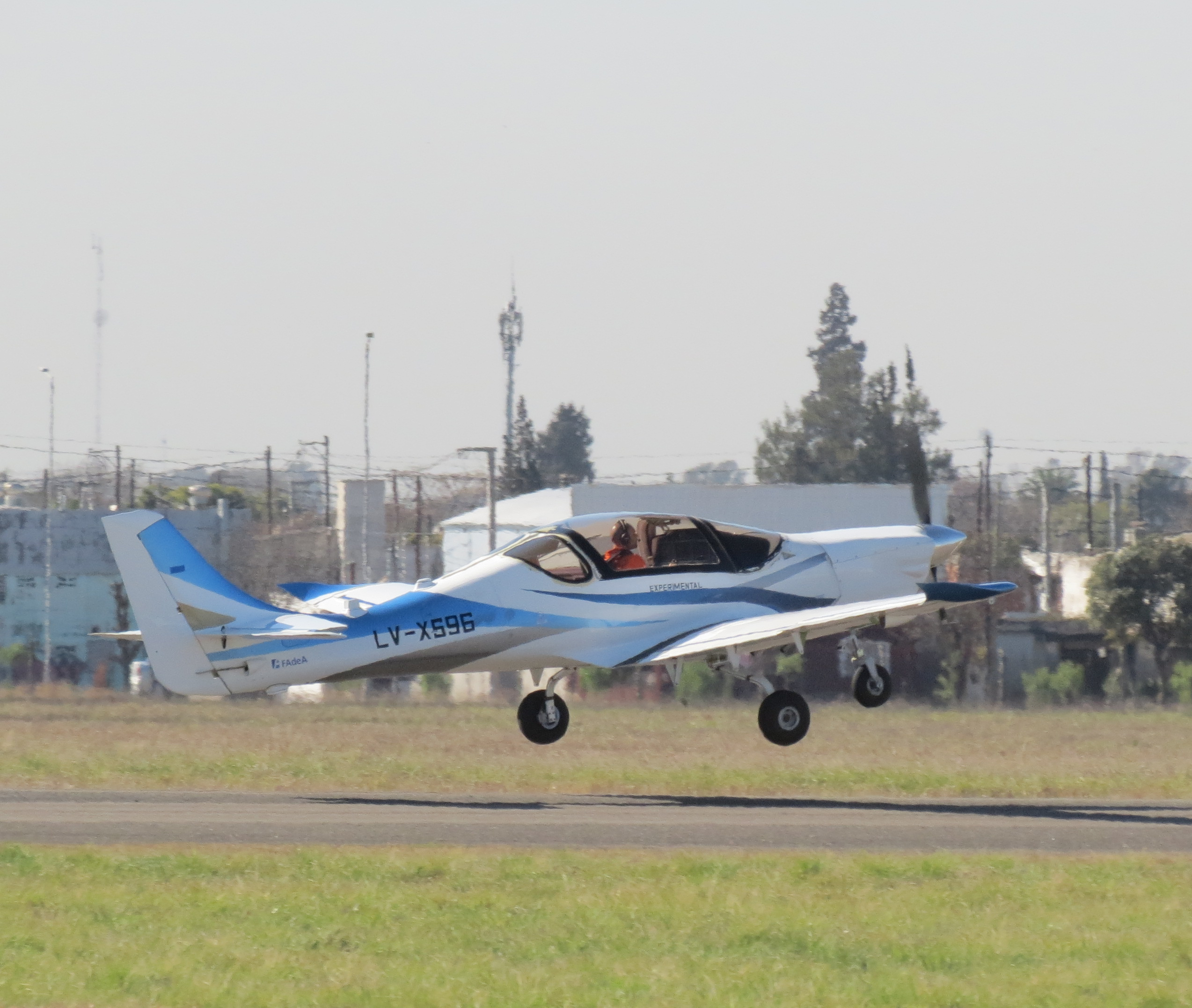 IA-100 trainer aircraft taking off.